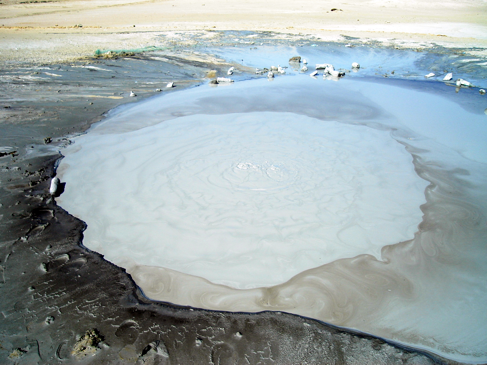 Hangol Mud volcano